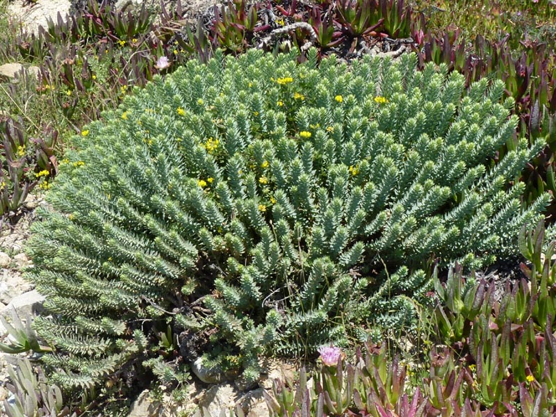 Euphorbia pithyusa